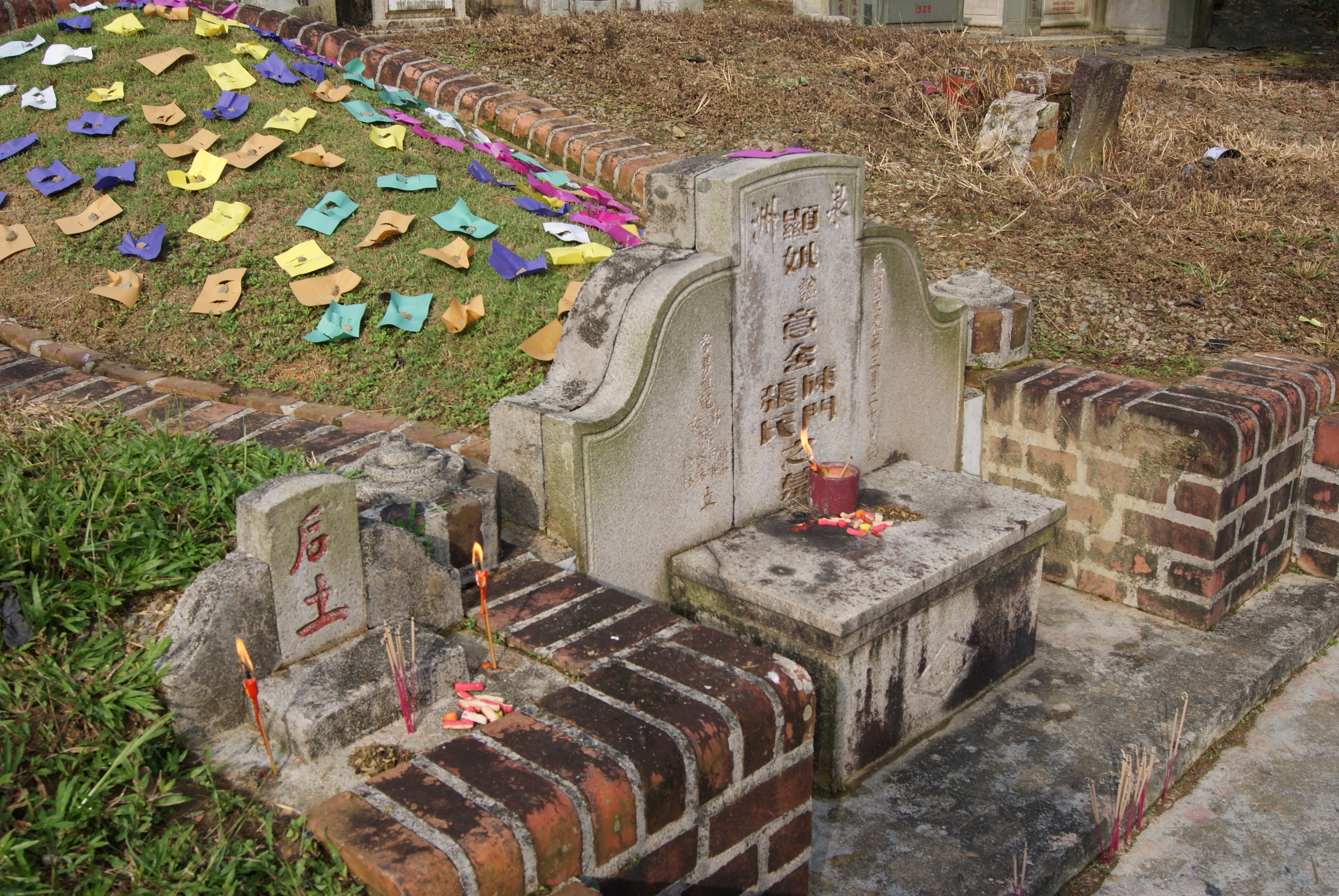 "Five coloured papers" placed on the mound of a grave in Bukit Brown Cemetery, Singapore, during Qingming Festival. There is a shrine to the Earth Deity (土地公 Tǔ Dì Gōng), also known as 后土 (Hòu Tǔ; "Backing of the Land"), on the left of the gravestone.